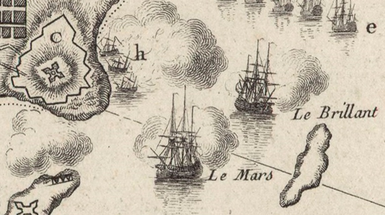 The French ships Brillant and Mars bombarding the fort Benedictines (letter C) during the attack on Rio in September 1711. Detail of a general plan of the attack dated 1711, but probably later because the return was made only in February 1712. War of Succession of Spain.